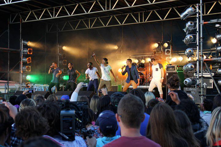 Titanium performing in Sydney, Australia on the All For You promotional tour